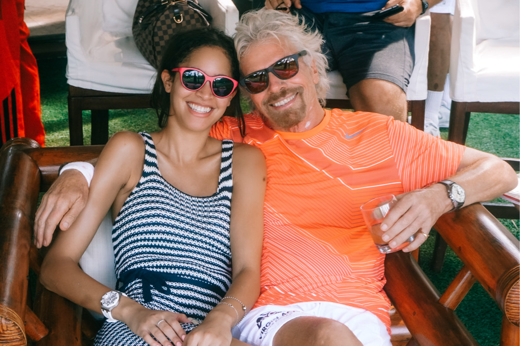 Keir Alexa and Richard Branson during the Necker Cup